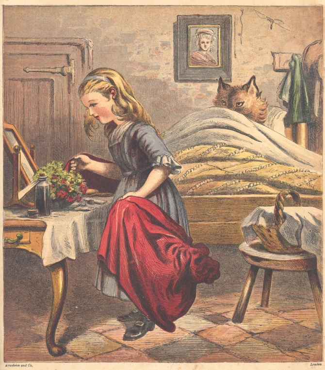 Illustration published in 1868 Dutch edition of Little Red Riding Hood. Engraving by English printer Kronheim & Co.